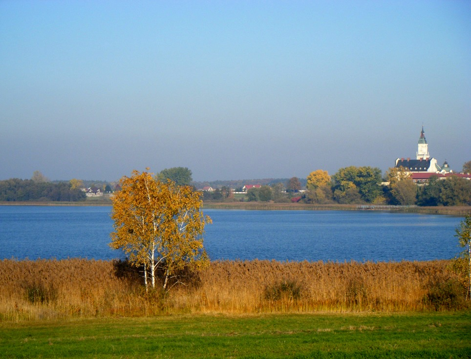 Brdowskie Lake (Poland, EU)